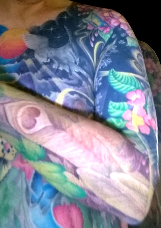 "Full sleeve" tattoo by Maaika, Heerenveen, Netherlands, on extensive scar tissue.